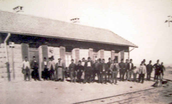 Mada'in Salih Train Station as part of